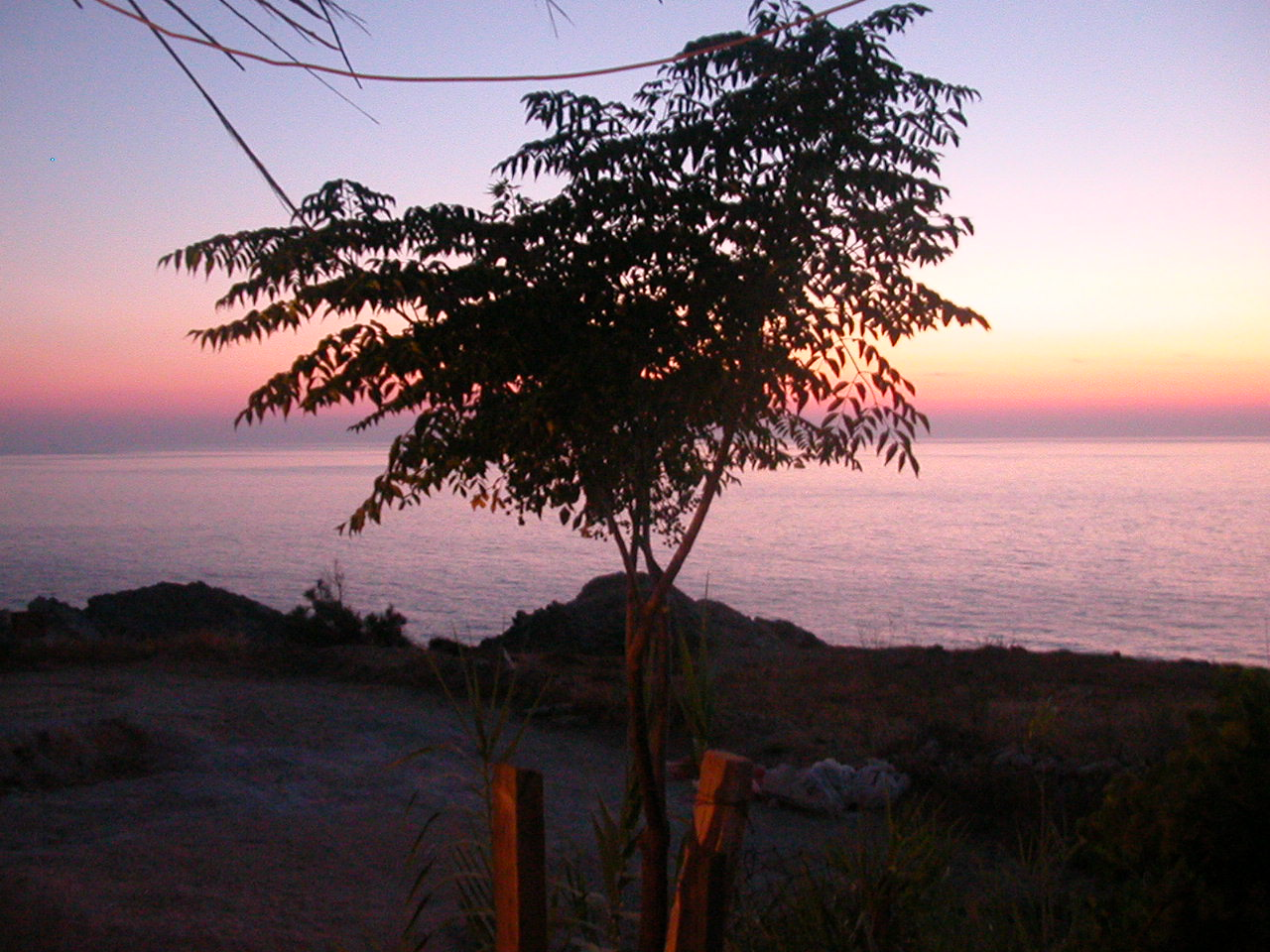 olive tree in afterglow, Nas, Icaria, Greece